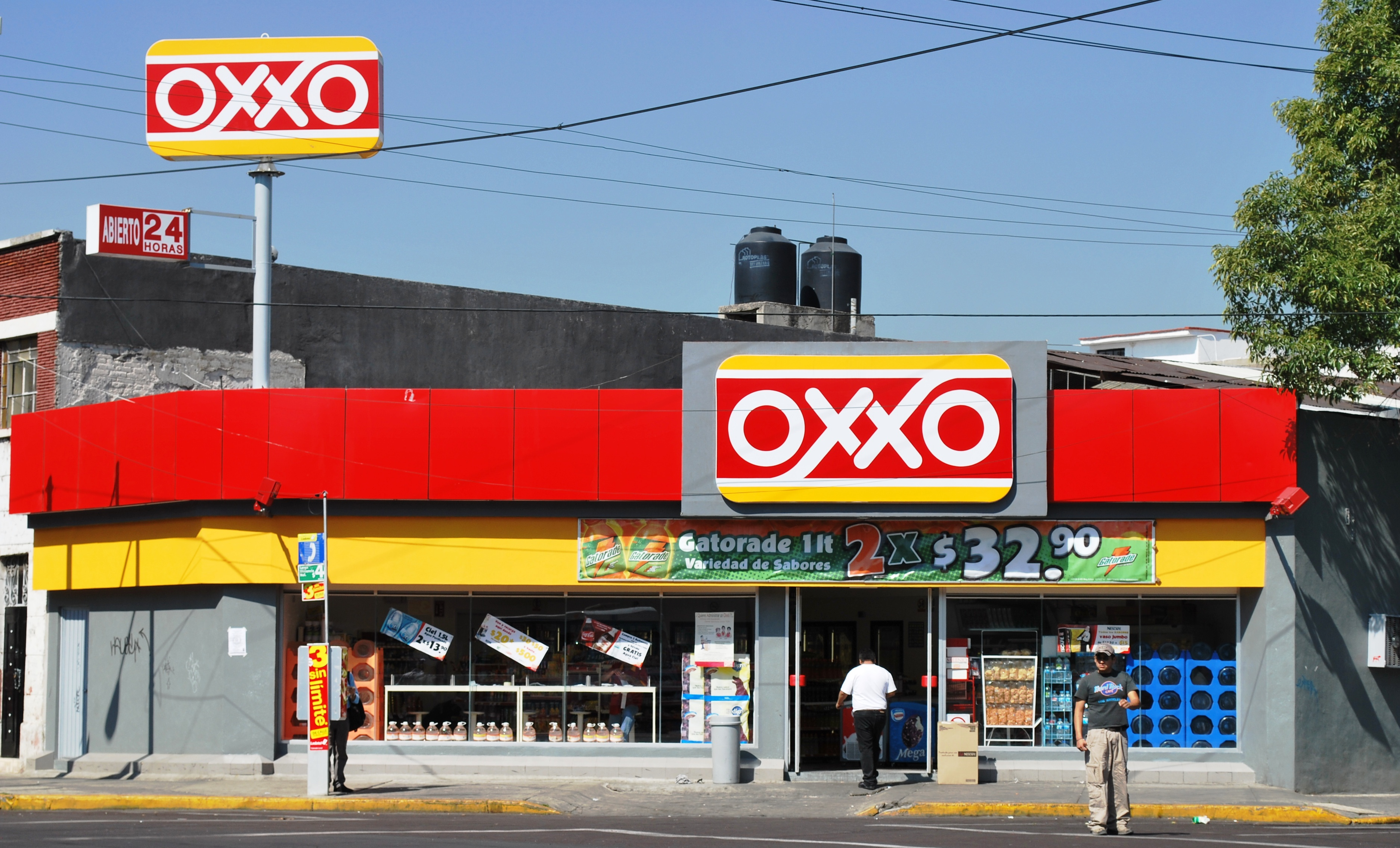 Oxxo convenience store at corner of Isabel la Catolica and Juan Antonio Mateos streets in Colonia Obrera in Mexico City